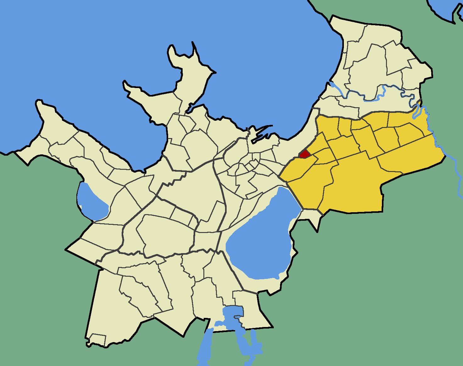 Map of Tallinn (Estonia) with borders of the quarters, Lasnamäe district and Uuslinn quarter emphasised